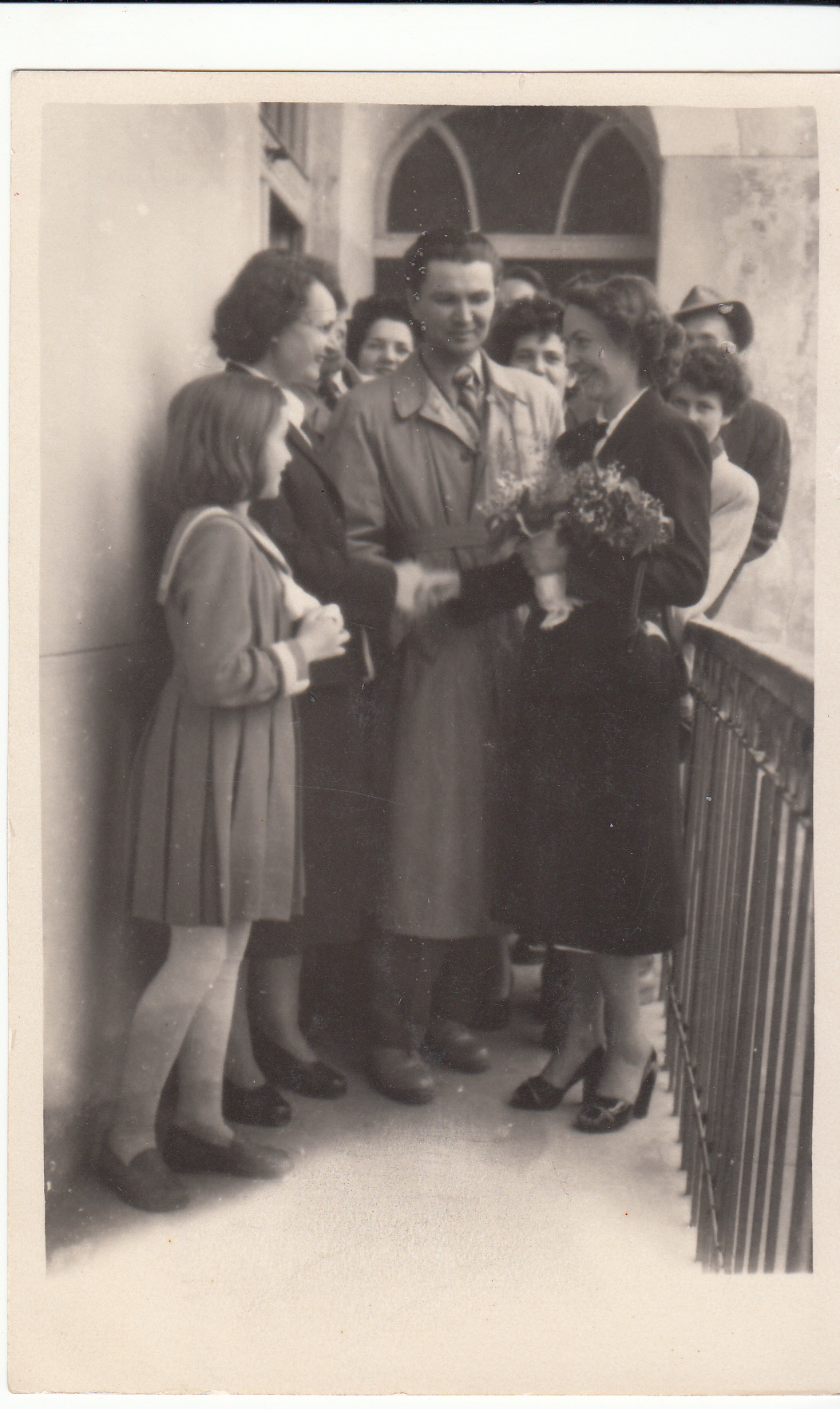 A photograph of a Vojvodinian Slovak artist Ana Piksiades from her first solo exhibition of paintings and graphics at the National Museum in Bački Petrovac (Vojvodina, Serbia) (1956). Piksiades is the woman holding the bouquet of flowers. Inventory number 2934. Srpski (latinica): Fotografija slovačke umetnice Ane Piksiades sa njene prve samostalne izložbe slika i grafika u Narodnom muzeju u Bačkom Petrovcu (1956). Piksiades je žena koja drži buket cveća. Inventarski broj 2934.